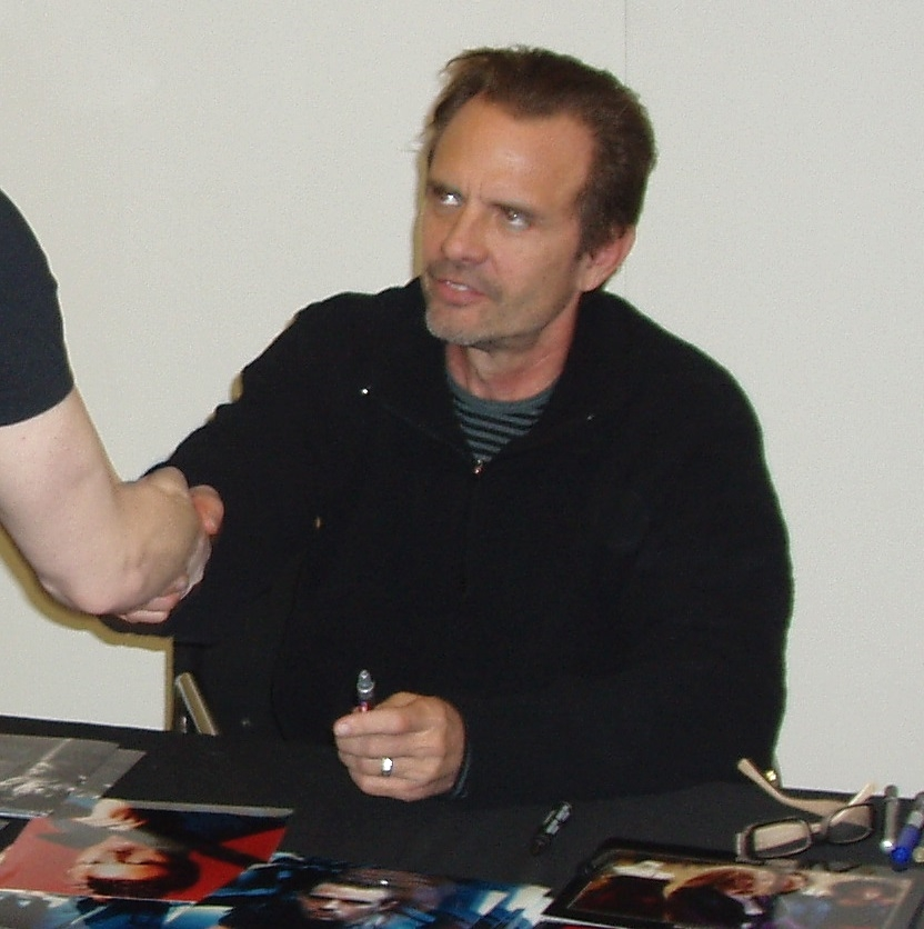 Michael Biehn at the Scandinavian Sci-Fi, Game & Film Convention in Malmö 2010.